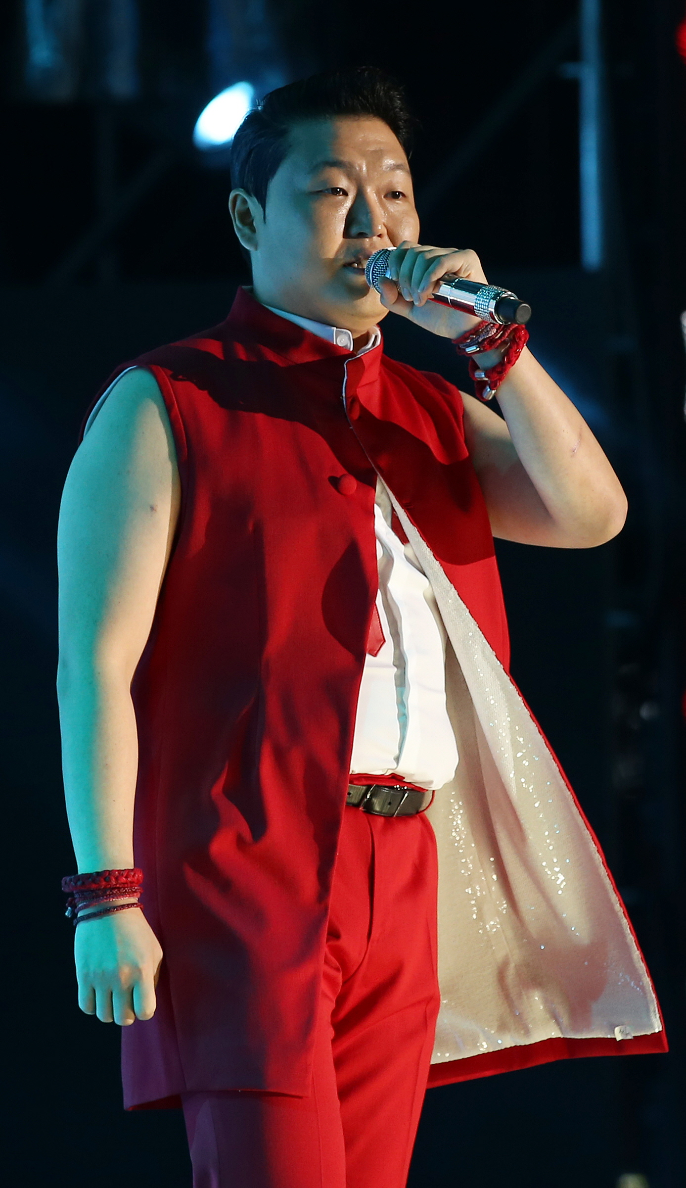 2015 Summer K-POP Festival August 4, 2015 Seoul Plaza Ministry of Culture, Sports and Tourism Korean Culture and Information Service ( Official Photographer : Jeon Han